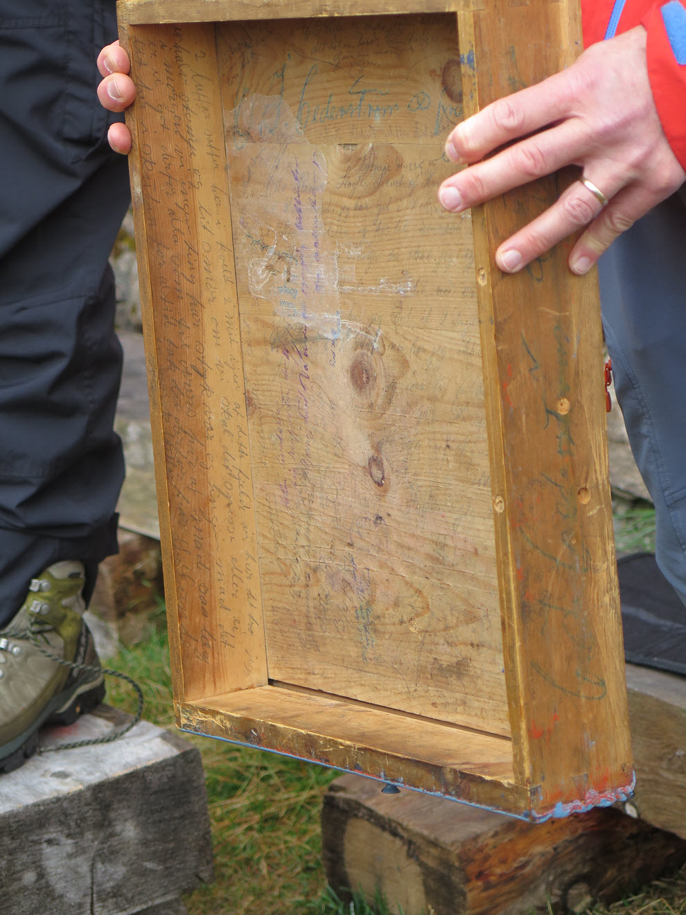 The drawer at Midtistua in Saltfjellet is full of inscriptions from those who worked on the telegraph and telephone line and others who stayed in the telegraph room.